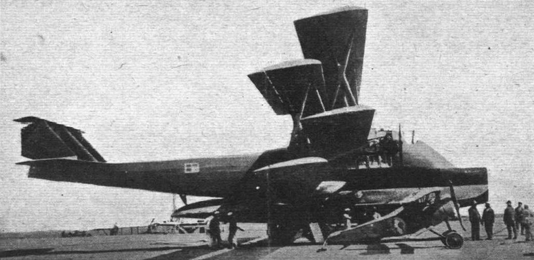 Photo of Besson H-5 aircraft 1 samf4u.jpg